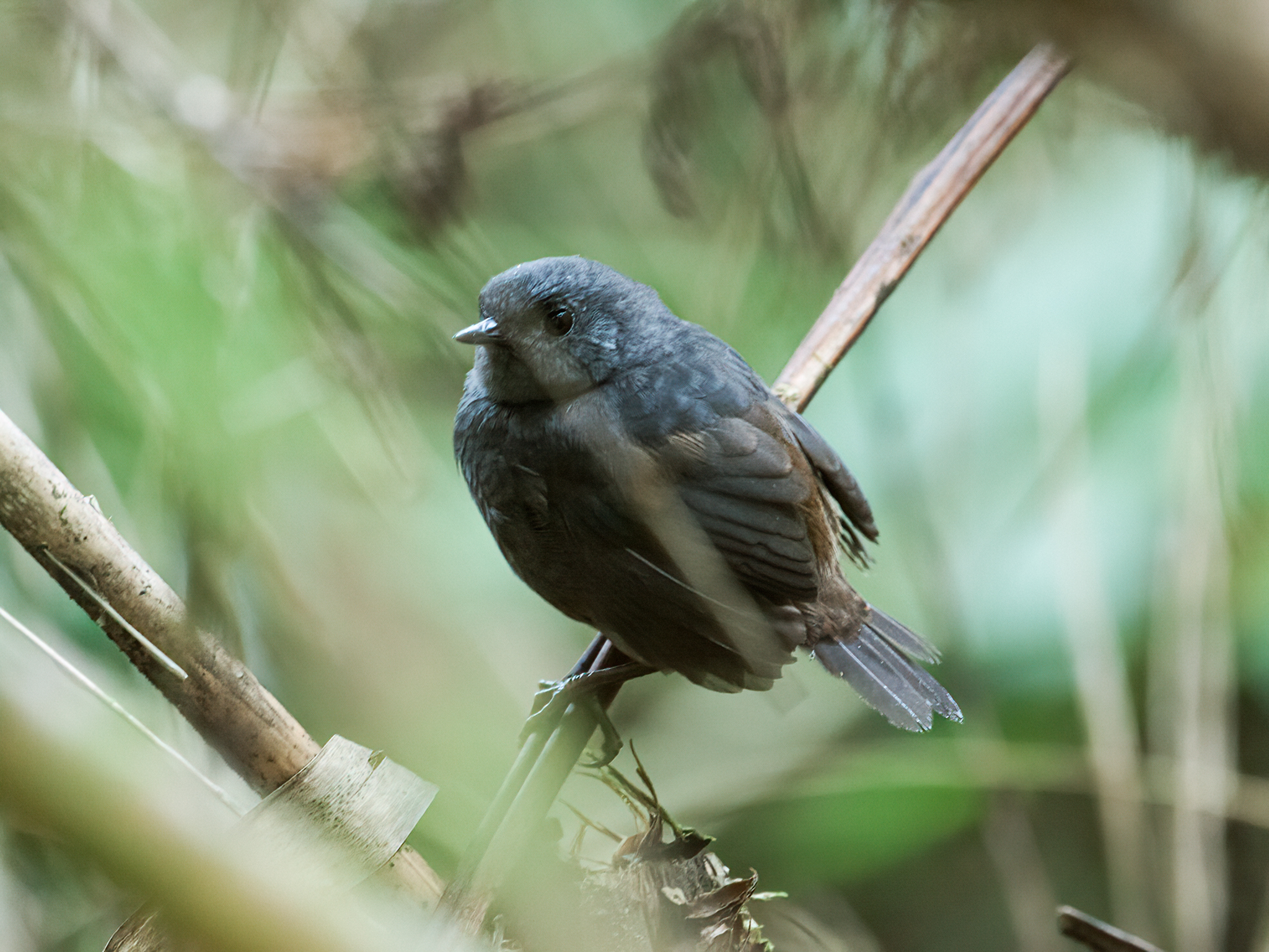 Chusquea Tapaculo from Tapichalaca Reserve, Zamora-Chinchipe, Ecuador